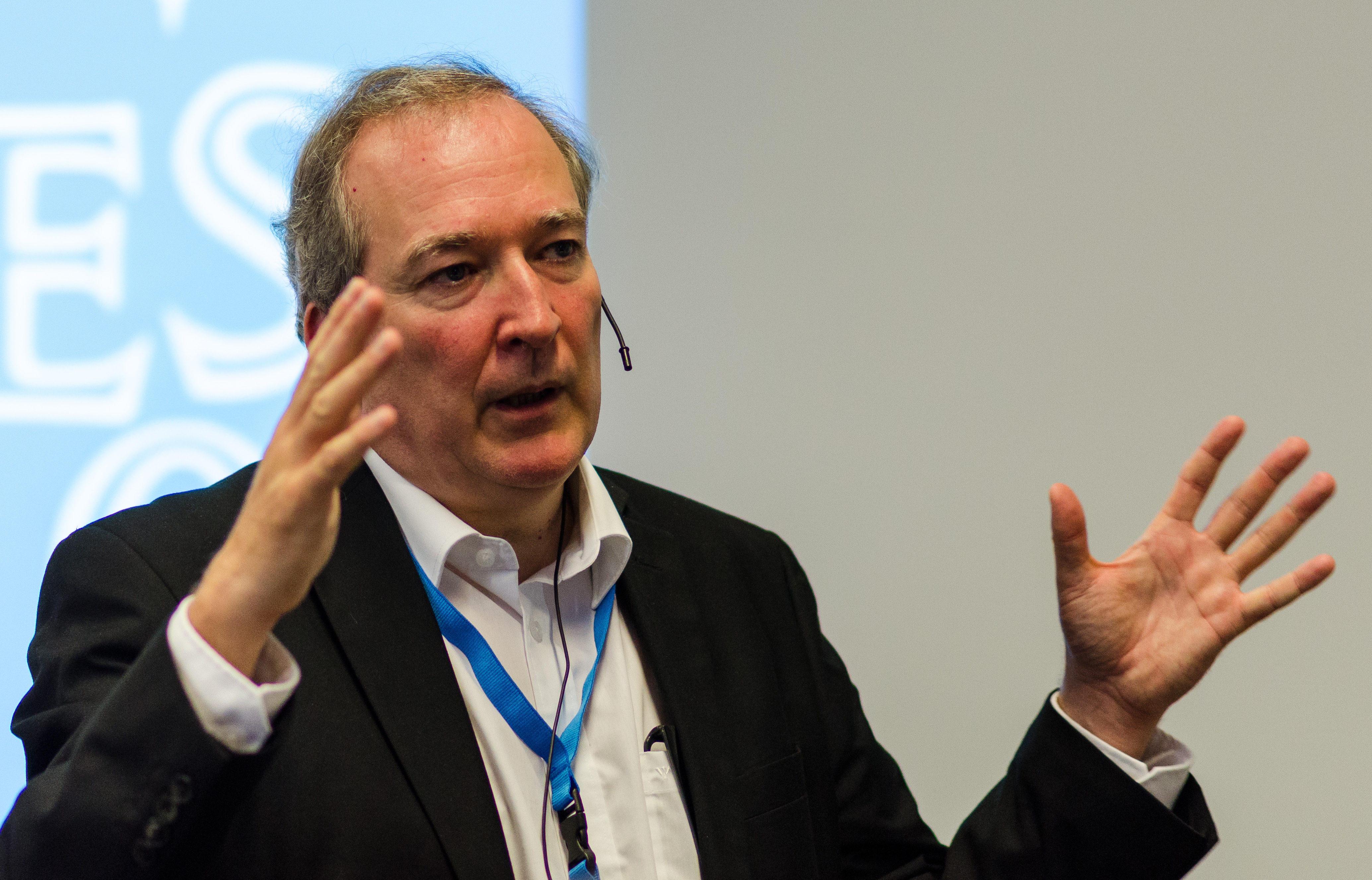 Taken during the first three days of the ESO@50 conference, celebrating 50 years of the European Southern Observatory. Held at ESO's headquarters in Garching near Munich, September 3–7, 2012.